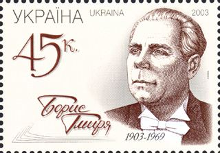 Stamp of Ukraine